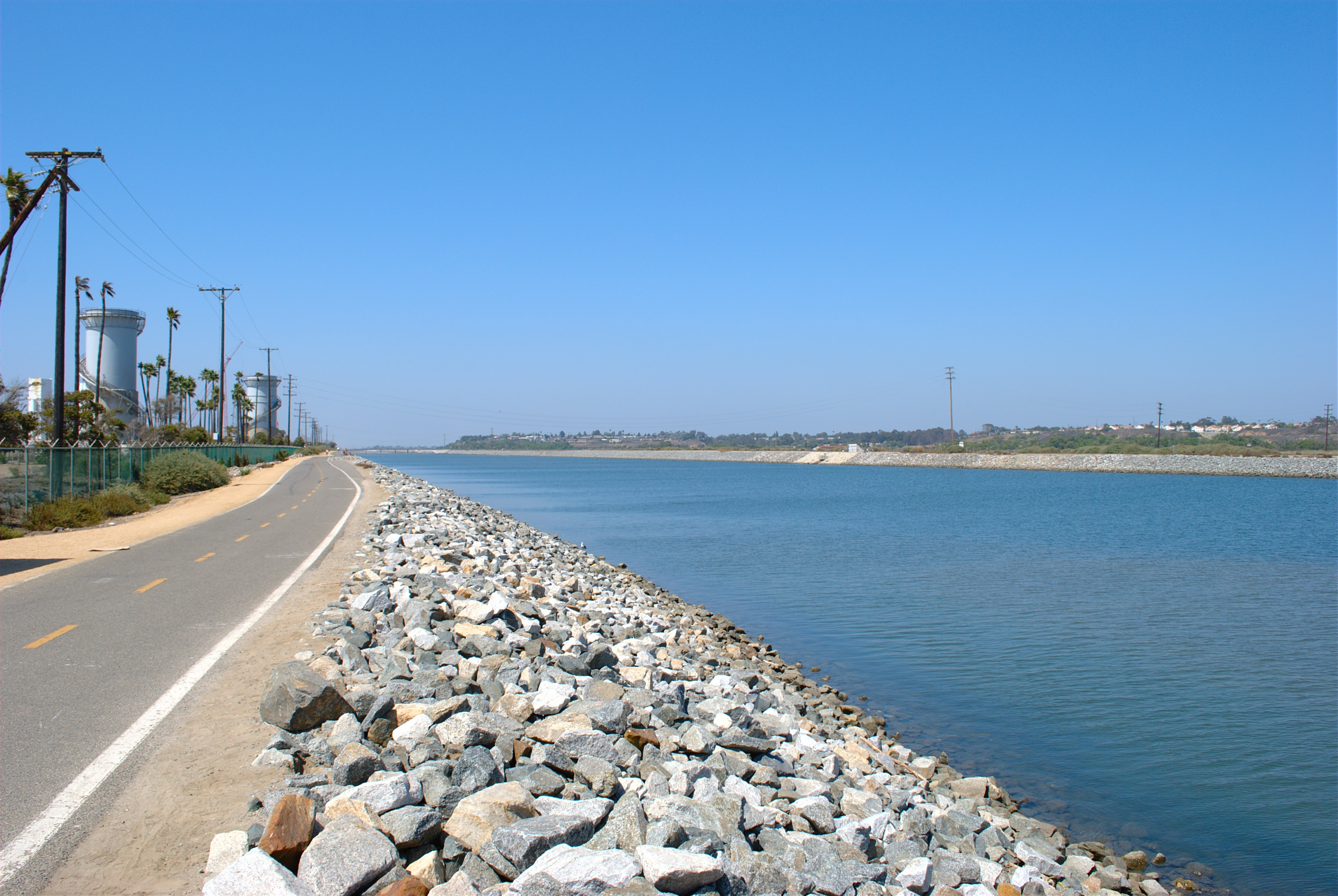 Santa Ana River looking upstream near the river mouth. Bike and pedestrian path to left.